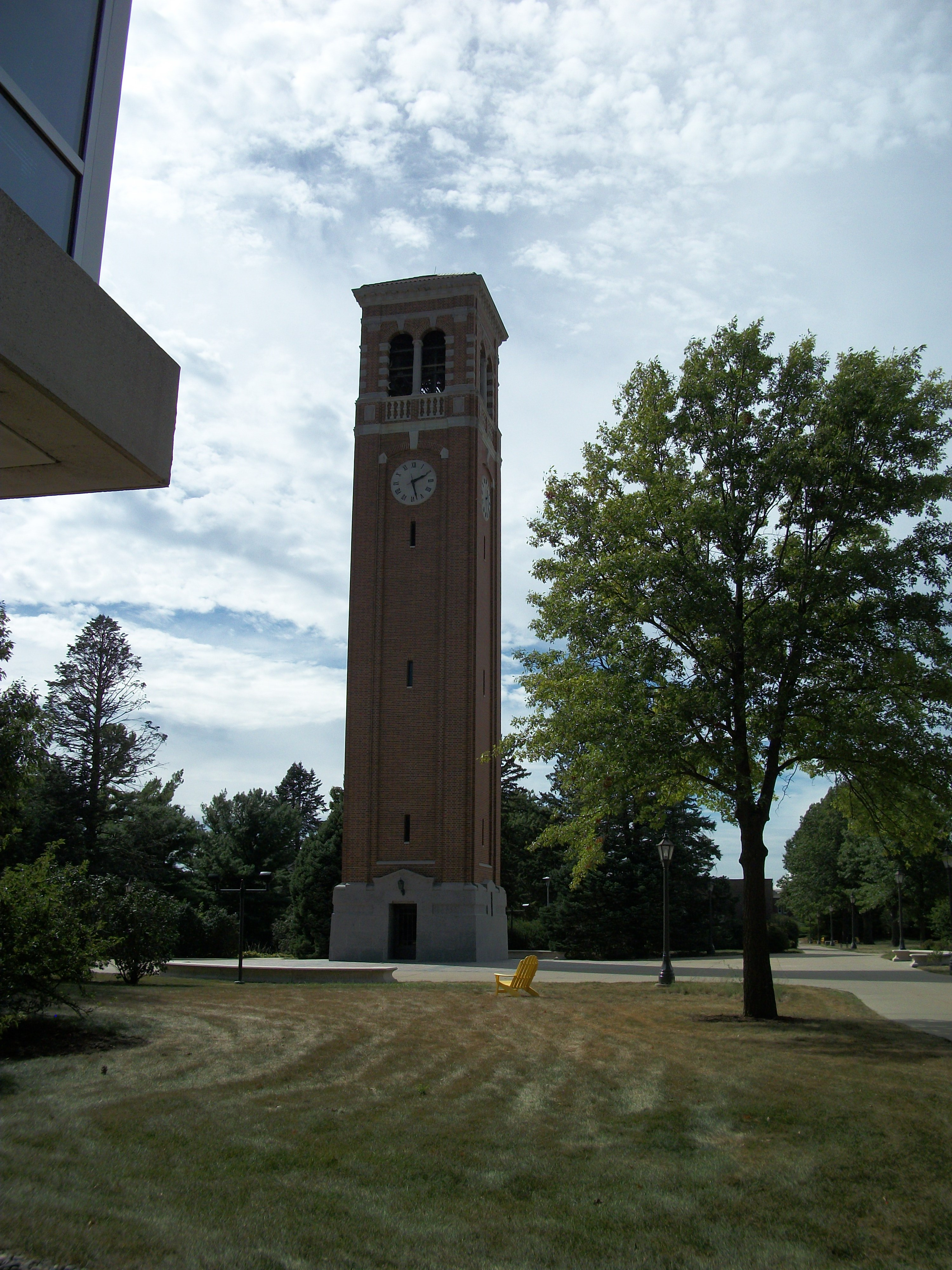 Campanile at the University of Northern Iowa